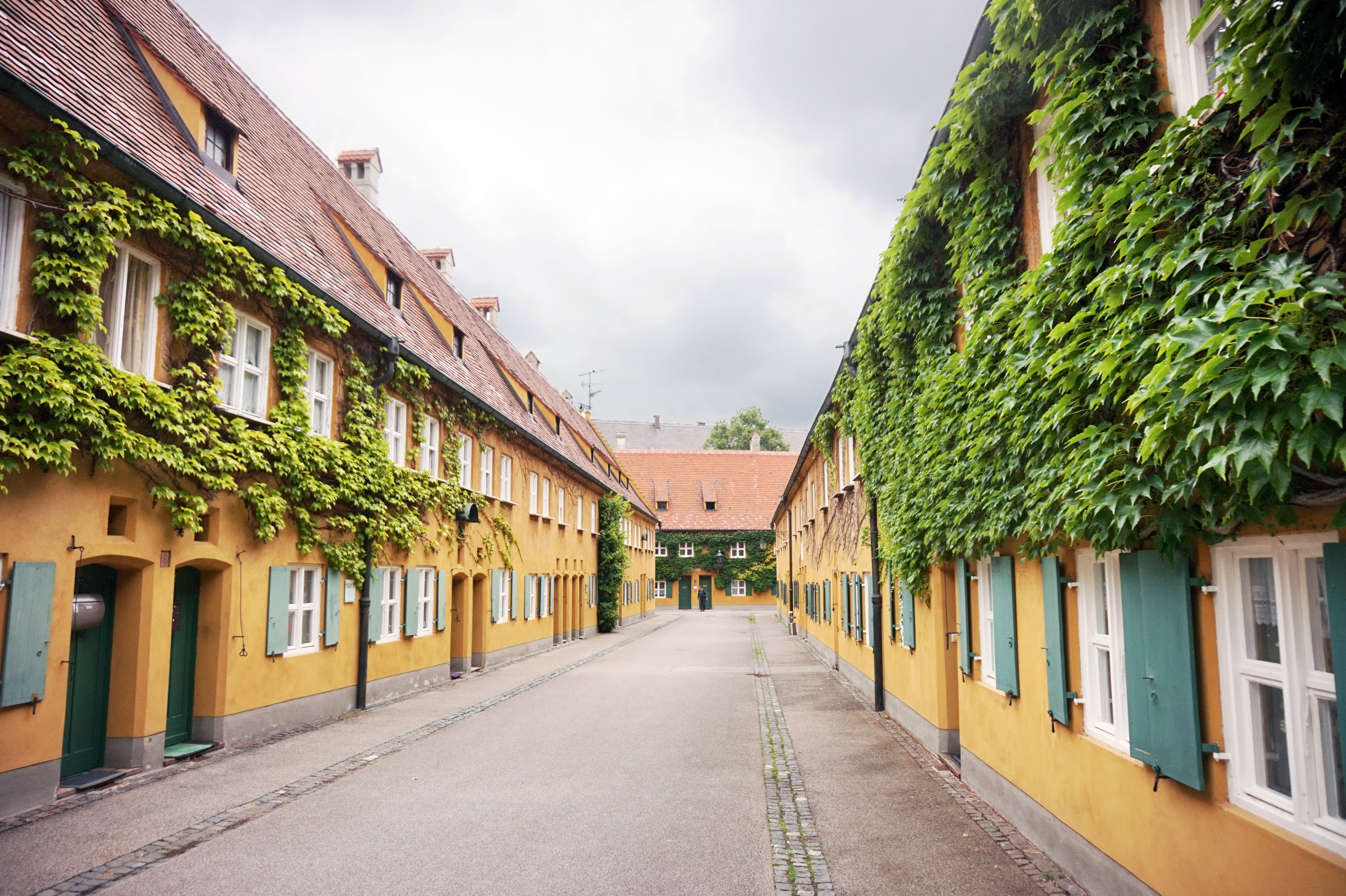 Mittlere Gasse street in Fuggerei social housing complex in Augsburg.This is a photograph of an architectural monument.